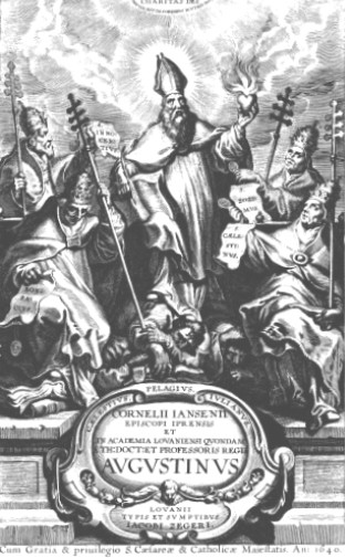 Title page of Augustinus by Cornelius Jansen, the book published in 1640 which formed the basis of the Jansenist Controversy.